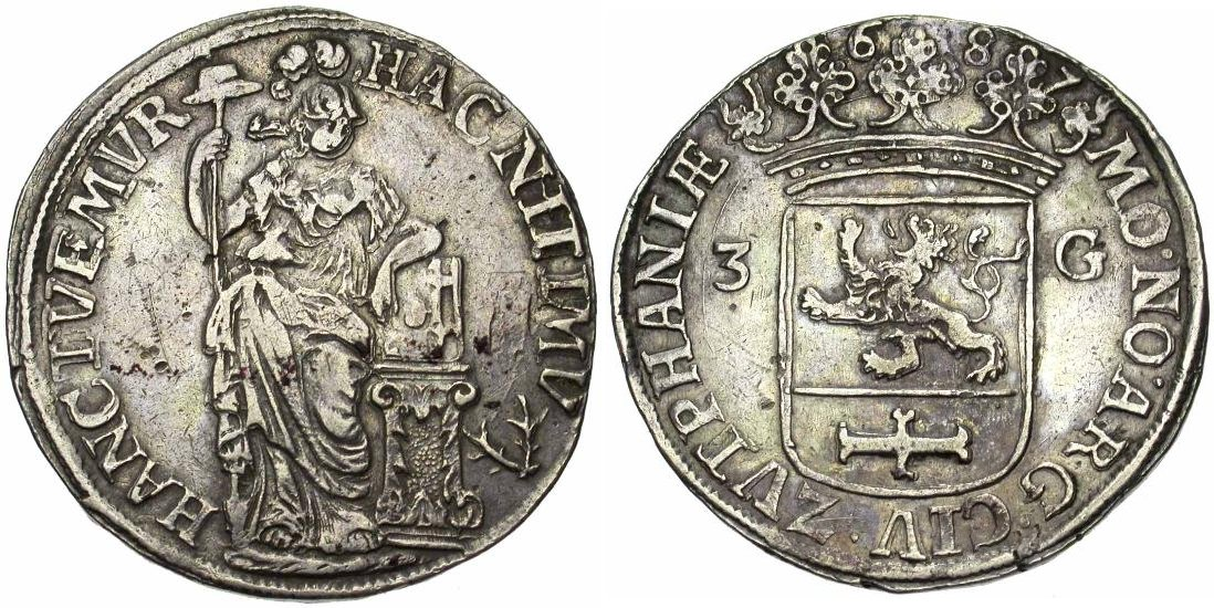 3 guilder coin, printed in Zutphen, in the front standing virgin, with liberty hat, backside coats of arms of Zutphen.